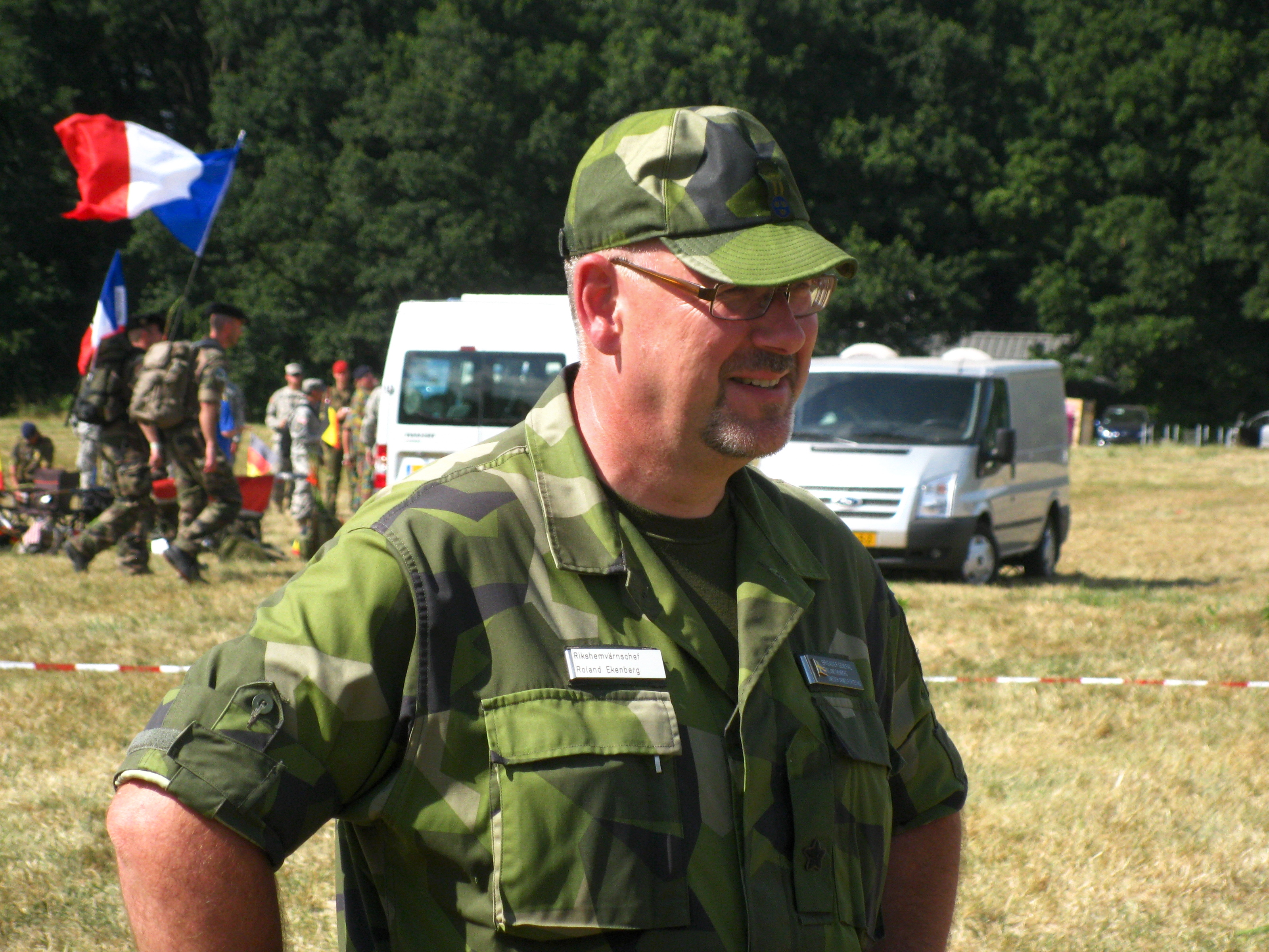 Swedish Brigadier general Roland Ekenberg during International Four Days Marches in Nijmegen.